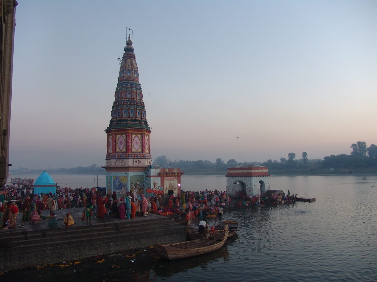 Pandharpur